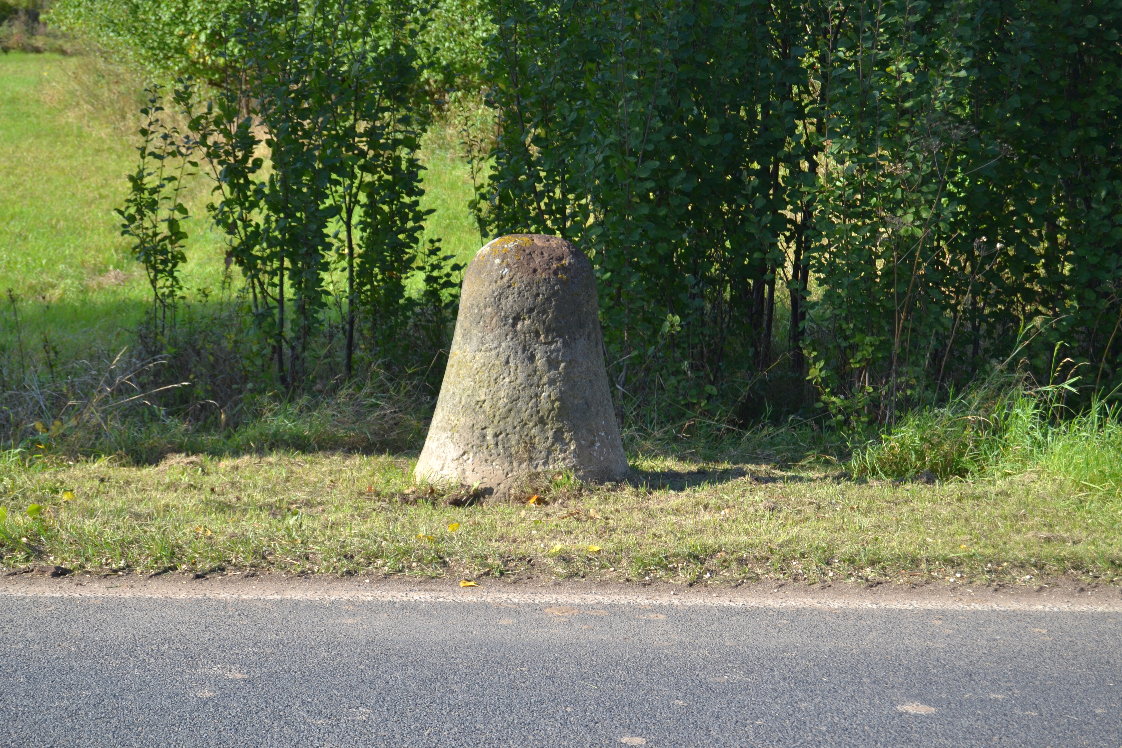 Quater milestone in Küstrin-Kietz.